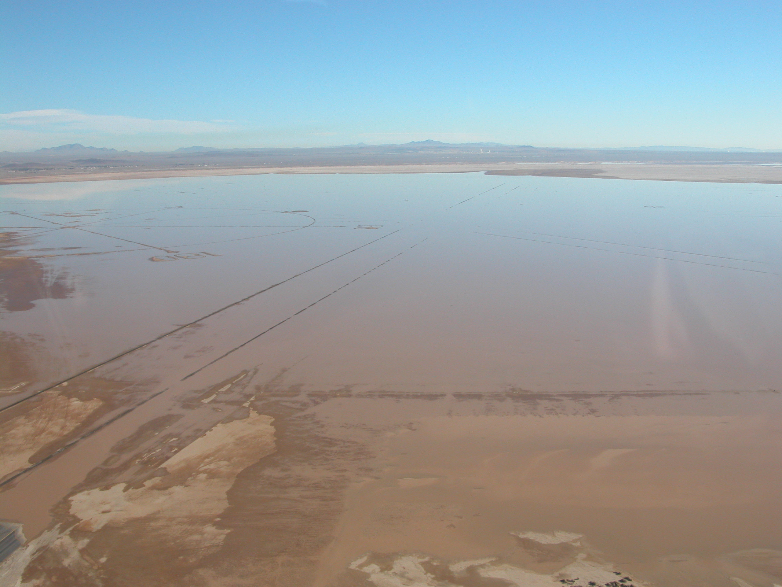 Rogers Dry Lake at Edwards Air Force Base isn't always dry. Shuttle landing strip and the world's largest compass rose are visible.